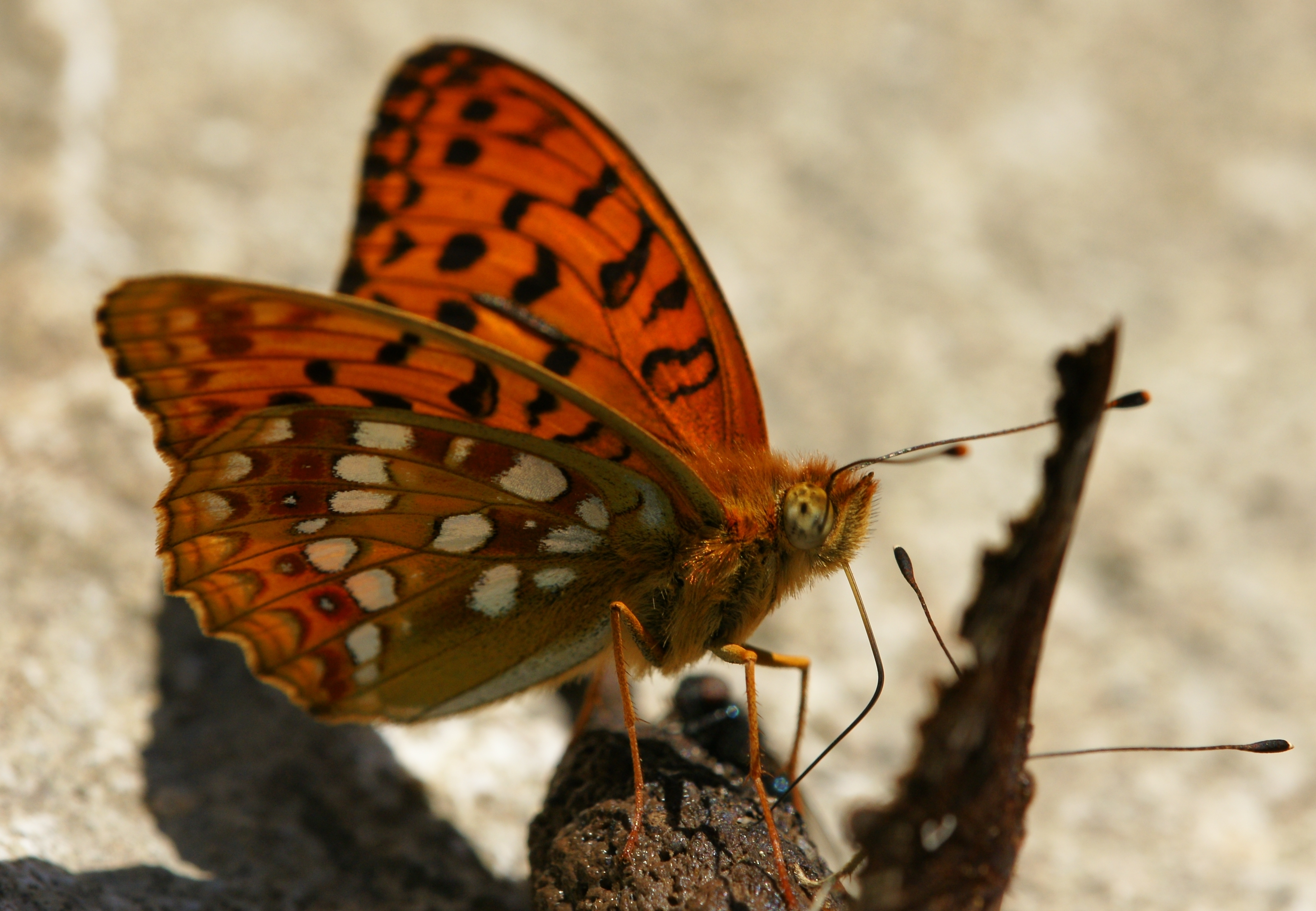 The The Dark Green Fritillary (Argynnis aglaja) is a butterfly of the Nymphalidae family.